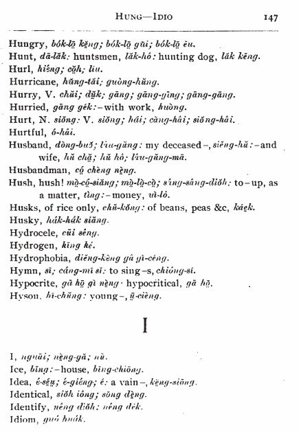 An English-Chinese Dictionary of the Foochow Dialect, 1890, by T. B. Adam